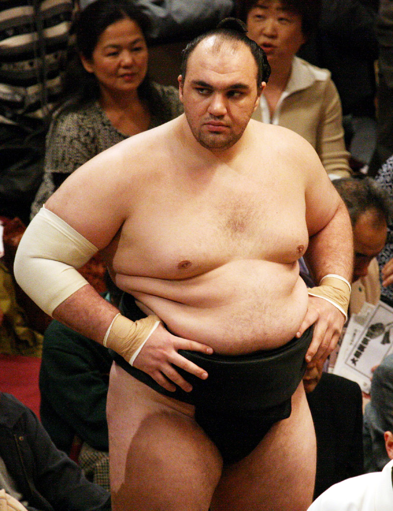 Rohō (Ōtake stable) during the May 2008 tournament.